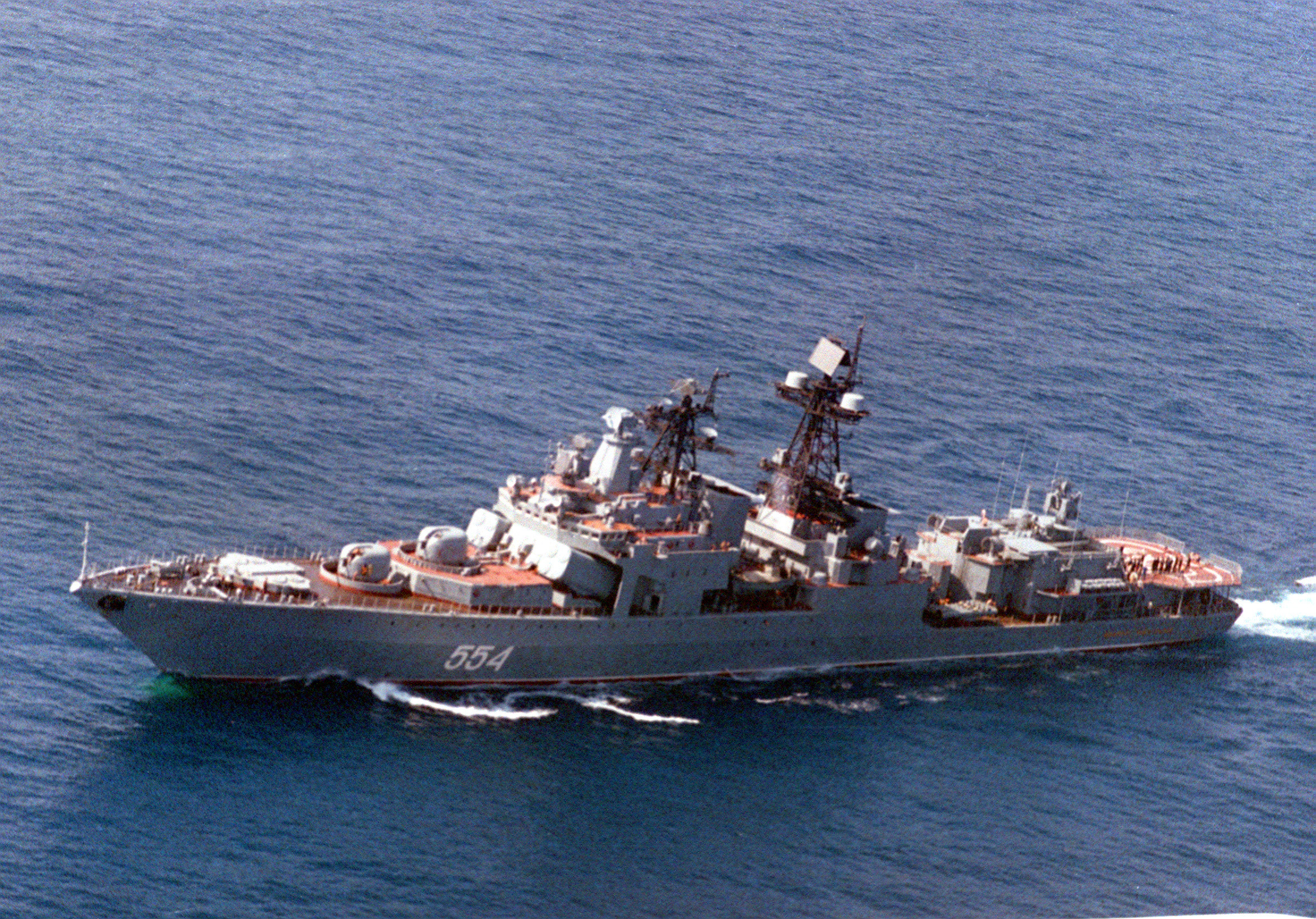 A port view of the Russian navy's Pacific Fleet Udaloy-class guided missile destroyer Admiral Vinogradov underway.